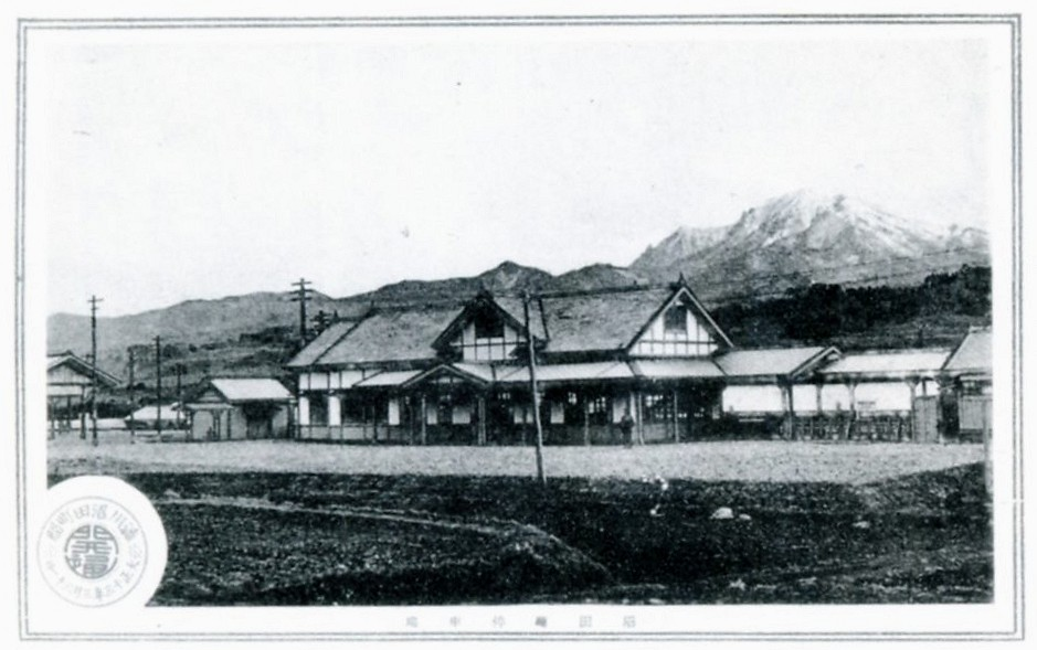 Numata Station on a postcard commemorating the completion of the Joetsu Line between Shibukawa and Numata